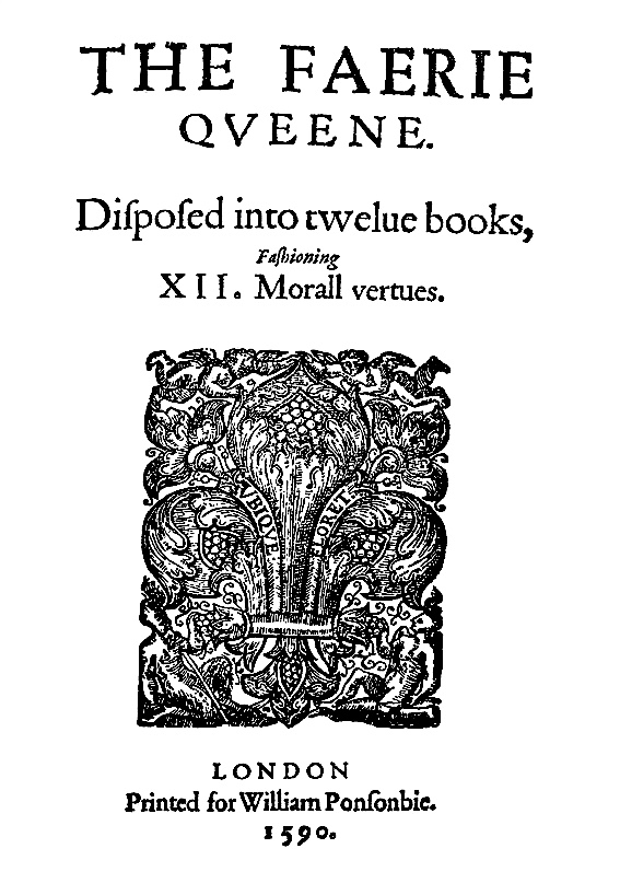 The epic poem The Faerie Queene was written by Edmund Spenser (1552 – 1599). The first three books of The Faerie Queene were published in 1590, and a second set of three books were published in 1596.